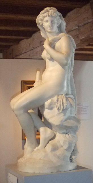 Rome